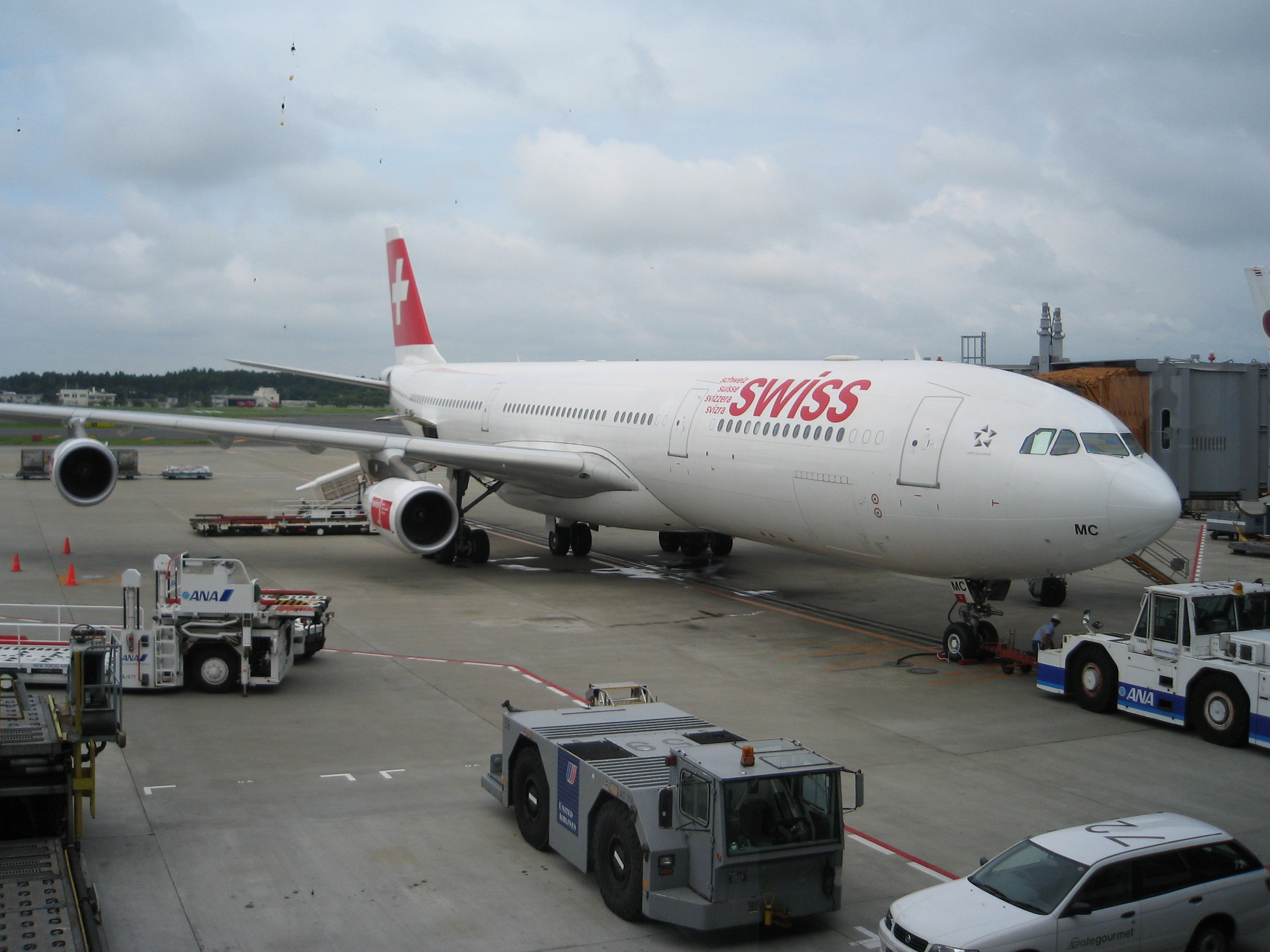 By ShuttleDiscovery. Swiss A340-300 at Narita Airport, ready for departure back to Zurich. Taken August 2006.